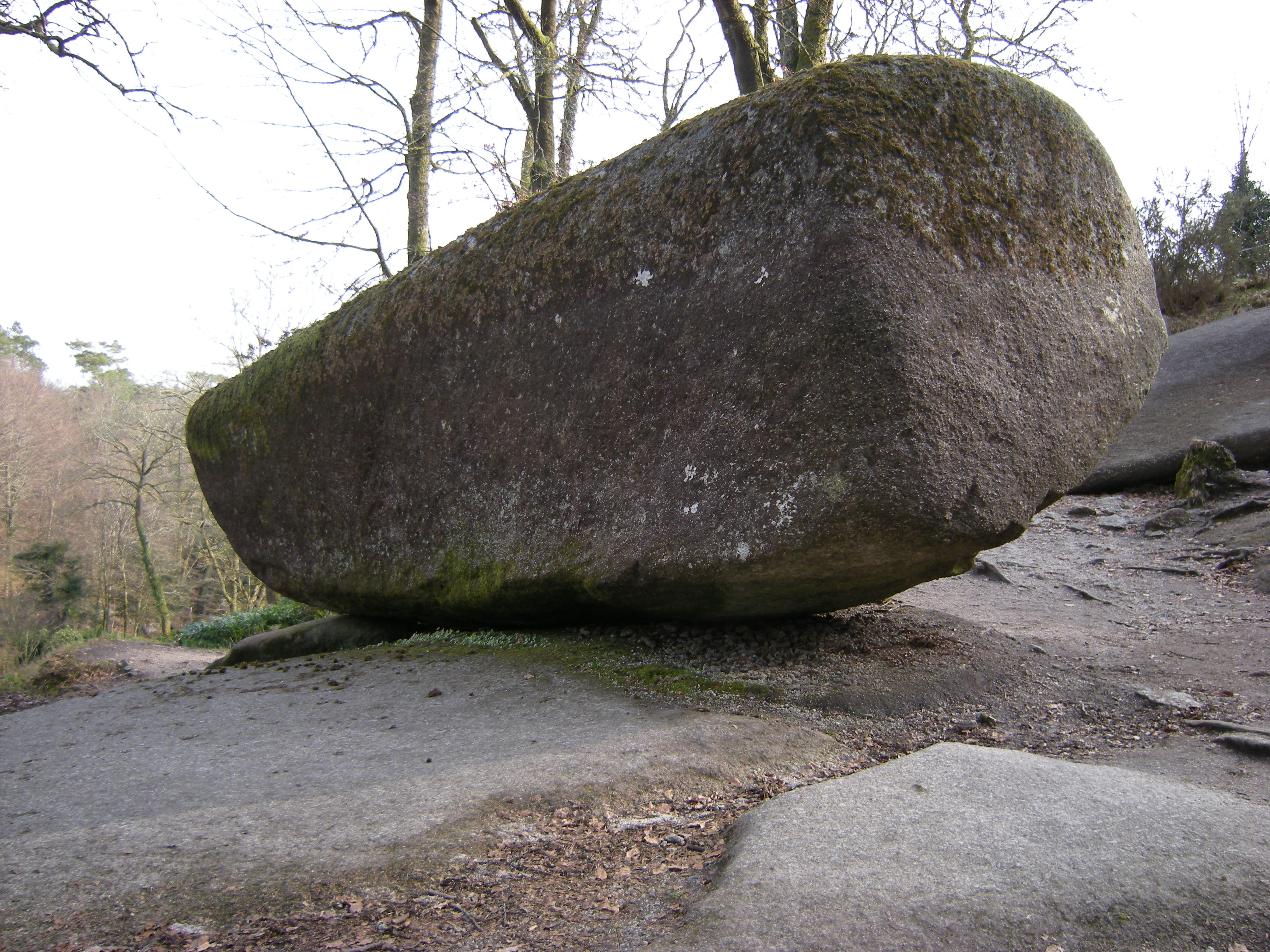 The Trembling rock in Huelgoat, Finistère, Britanny, France